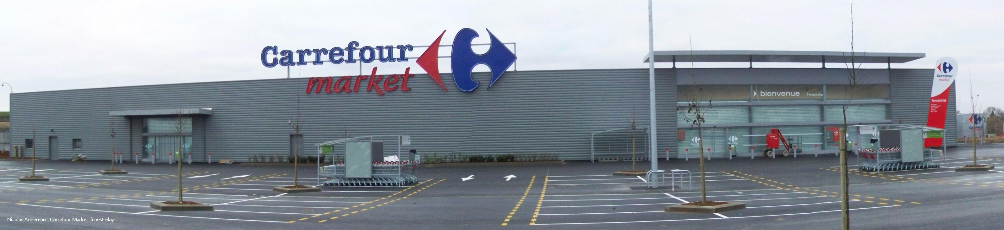 A new supermarket "Carrefour market" in Bourges (France)